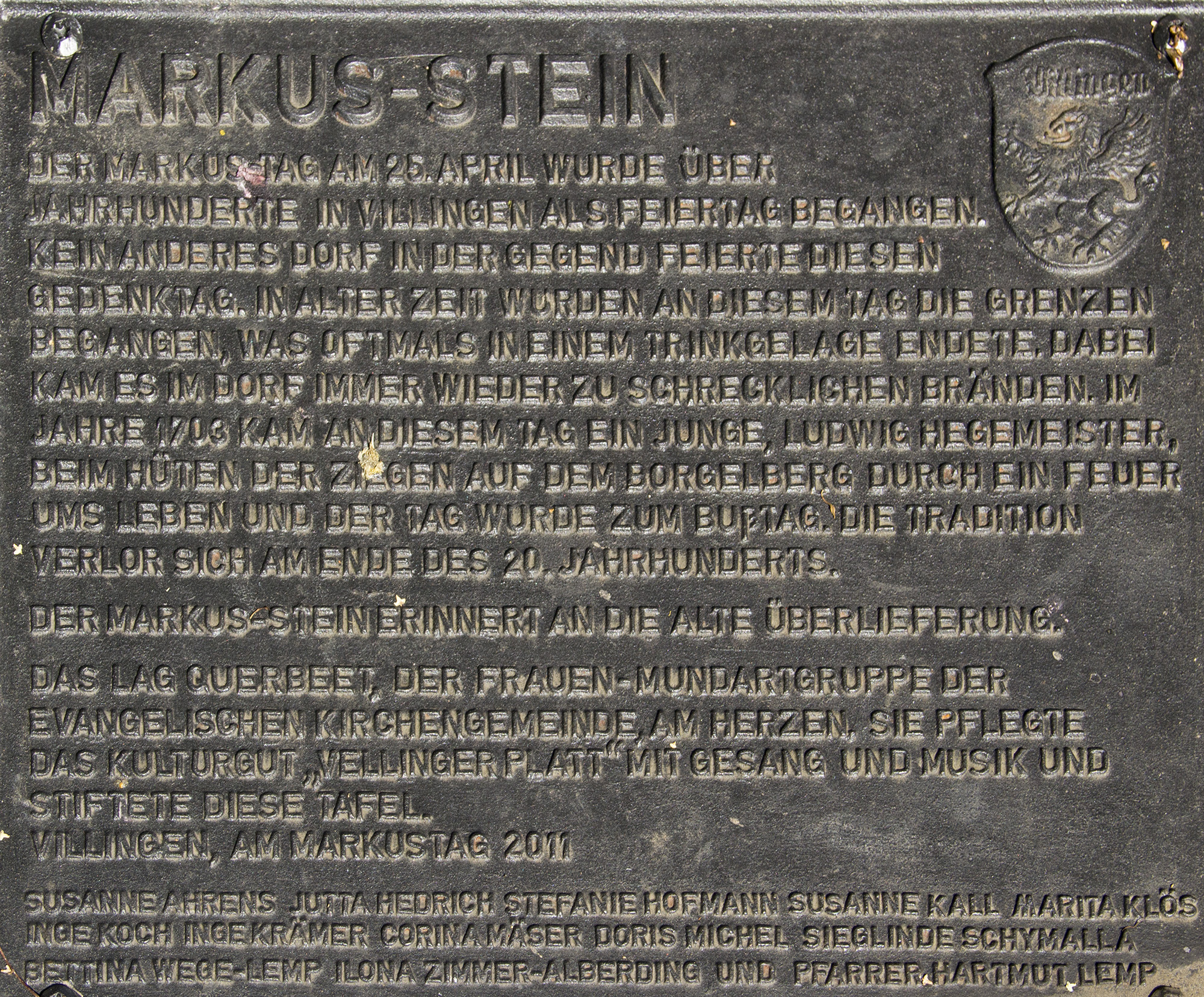 Sign on the Markus-Stone, Hungen Villingen.